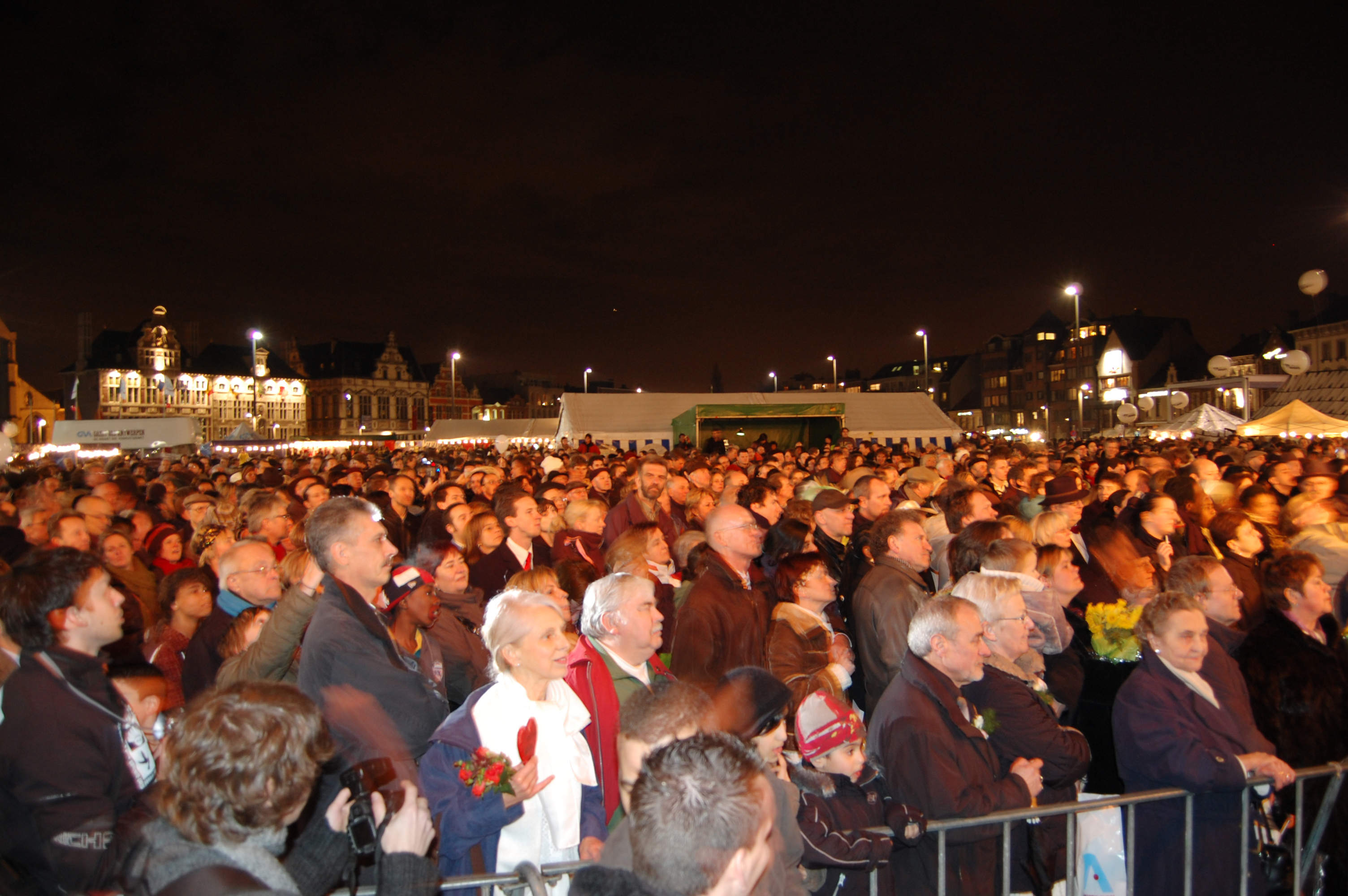 Picture of the multicultural mass wedding event in Sint-Niklaas.